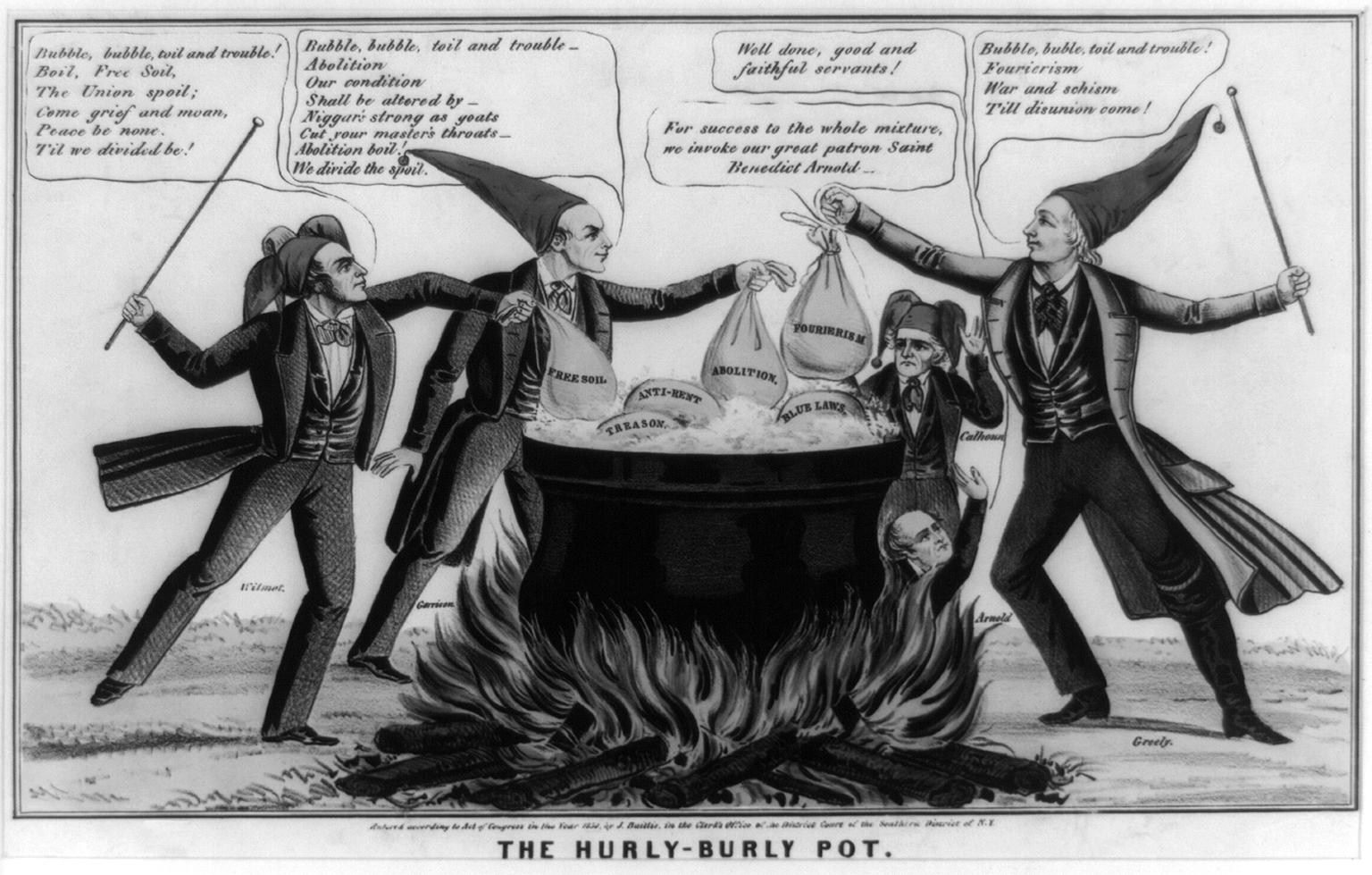 The artist attacks abolitionist, Free Soil, and other sectionalist interests of 1850 as dangers to the Union. He singles out for indictment radical abolitionist William Lloyd Garrison, Pennsylvania Free Soil advocate David Wilmot, New York journalist Horace Greeley, and Southern states' rights spokesman Senator John C. Calhoun. The four wear fool's caps and gather, like the witches in Shakespeare's "Macbeth," round a large, boiling cauldron, adding to it sacks marked "Free Soil," "Abolition," and "Fourierism" (added by Greeley, a vocal exponent of the doctrines of utopian socialist Charles Fourier). Sacks of "Treason," "Anti-Rent," and "Blue Laws" already simmer in the pot. Wilmot: "Bubble, bubble, toil and trouble! / Boil, Free Soil, / Ther Union spoil; / Come grief and moan, / Peace be none. / Til we divided be!" Garrison: "Bubble, bubble, toil and trouble / Abolition / Our condition / Shall be altered by / Niggars strong as goats / Cut your master's throats / Abolition boil! / We divide the spoil." Greeley: "Bubble, buble [sic], toil and trouble! / Fourierism / War and schism / Till disunion come!" In the background, stands the aging John Calhoun. He announces, "For success to the whole mixture, we invoke our great patron Saint Benedict Arnold." The latter rises from the fire under the pot, commending them, "Well done, good and faithful servants!" lithograph with watercolor, on wove paper ; 27 x 39.2 cm (image)